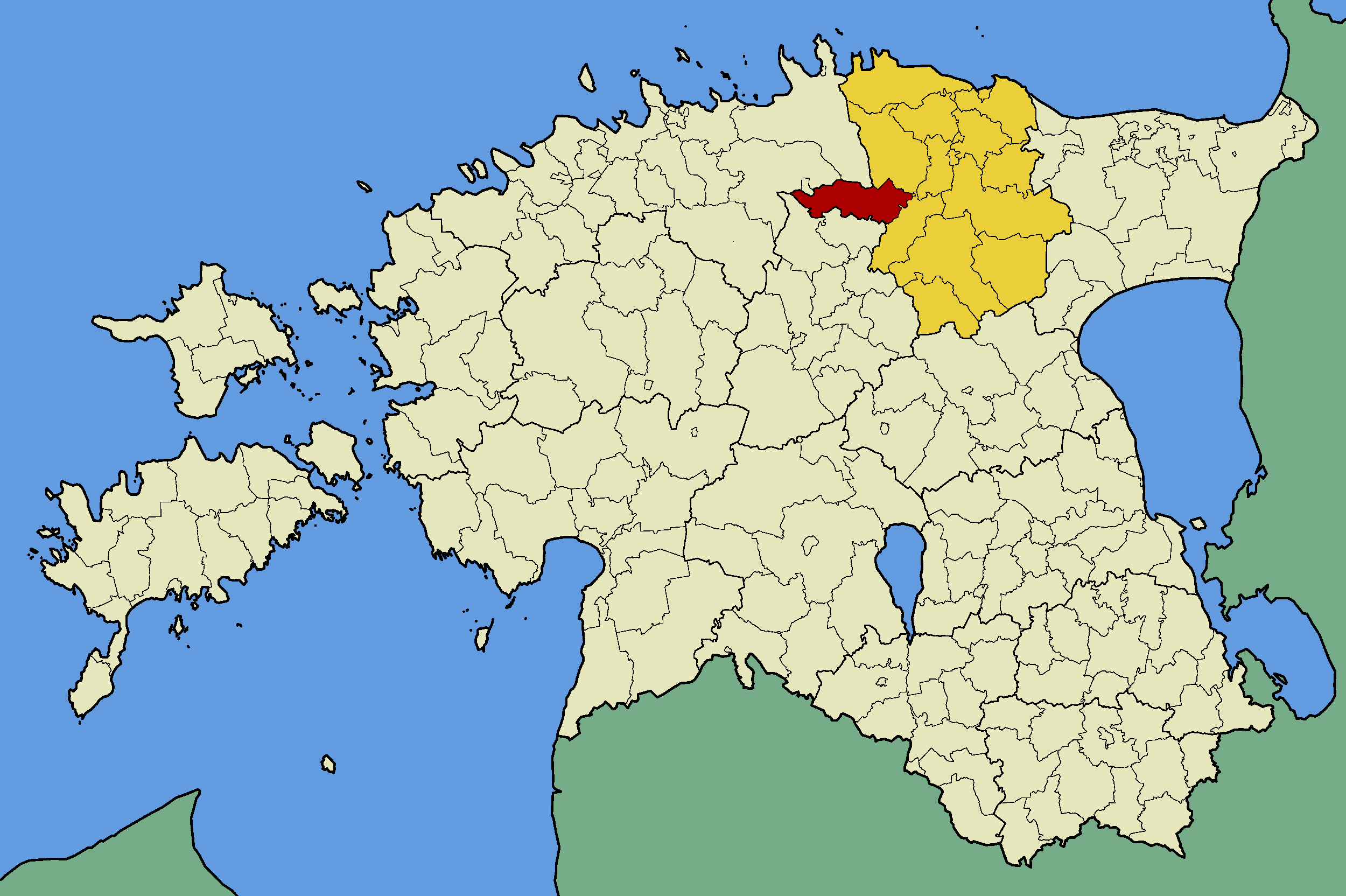 Map of Estonia with borders of municipalities (parishes). Lääne-Viru county and Tapa municipality emphasized.